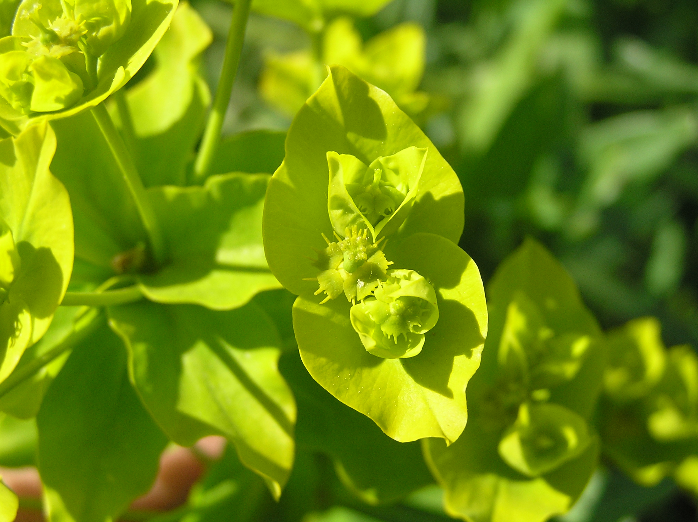 Euphorbia lucida, Lnažhot, Southern Moravia, Czech Republic